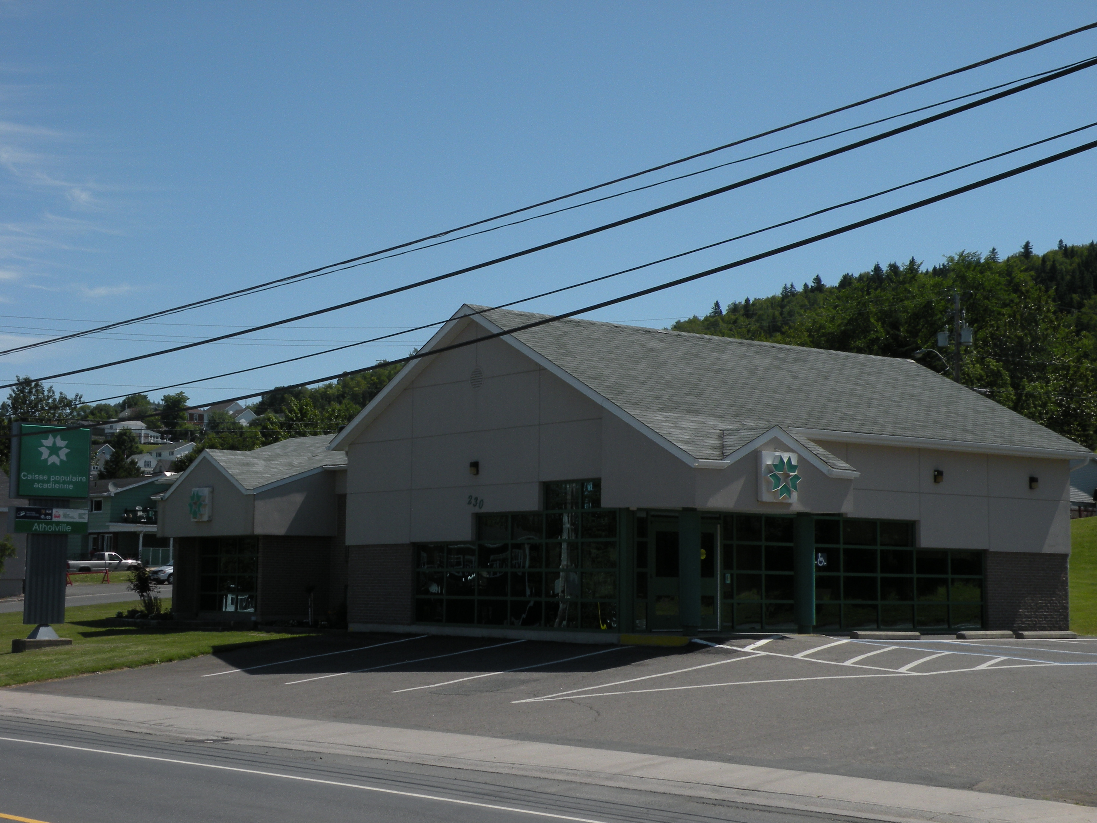 The Acadian Credit Union of Atholville, New Brunswick, Canada.